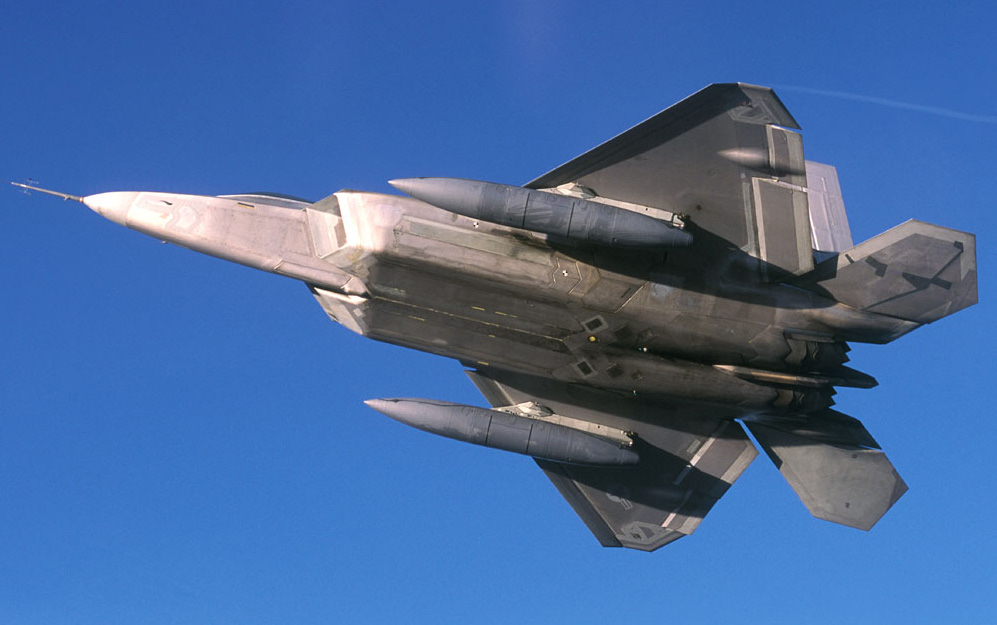 A F-22 with two fuel tanks